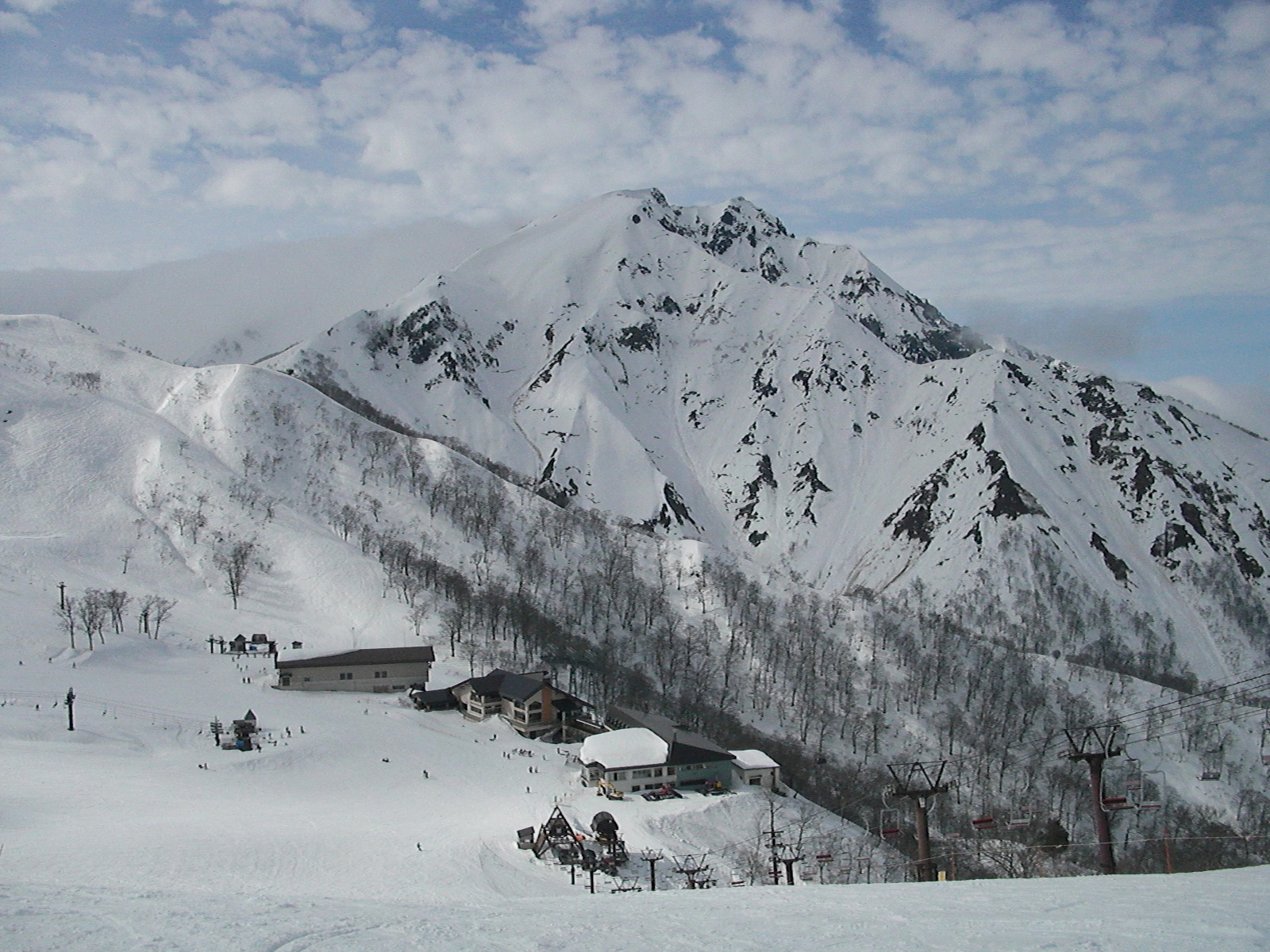 From the Tenjindaiira skiing area Takakurayama lift mountaintop a photograph